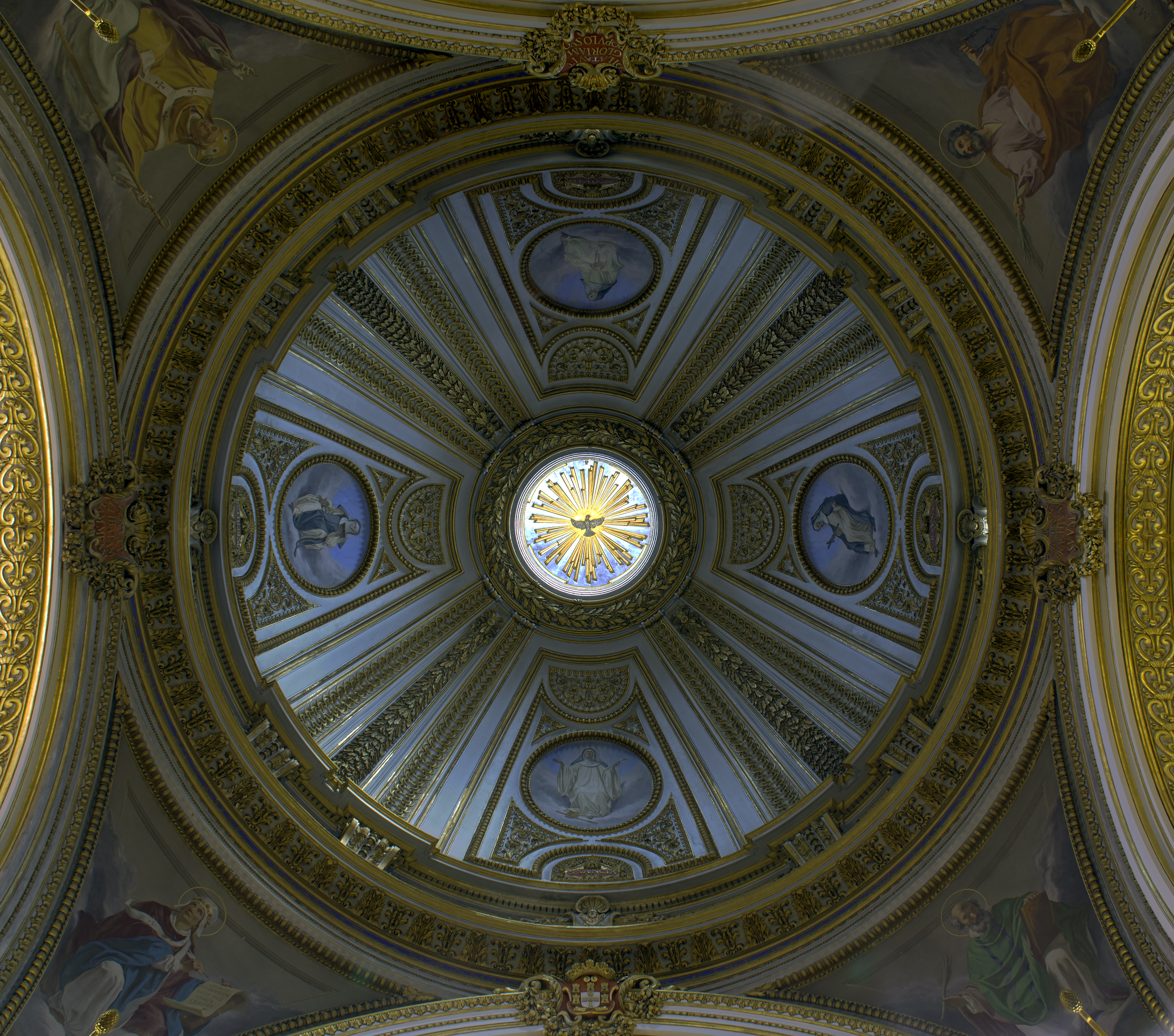 Dome of Sant'Antonio in Campo Marzio HDR